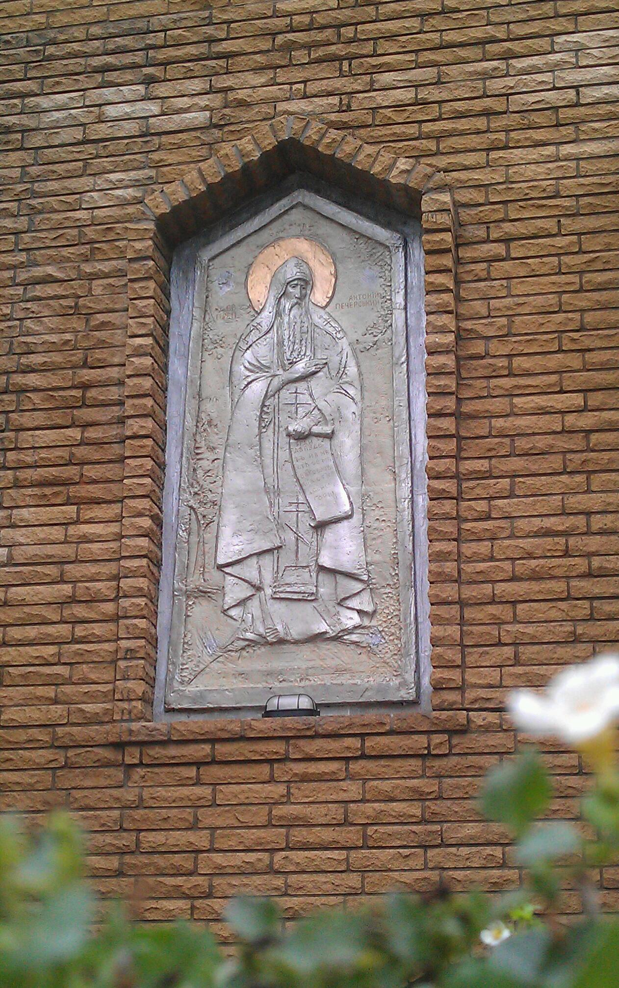 Anthony of Kiev. Sculpture in Lyubech by Gennadij Jerszow